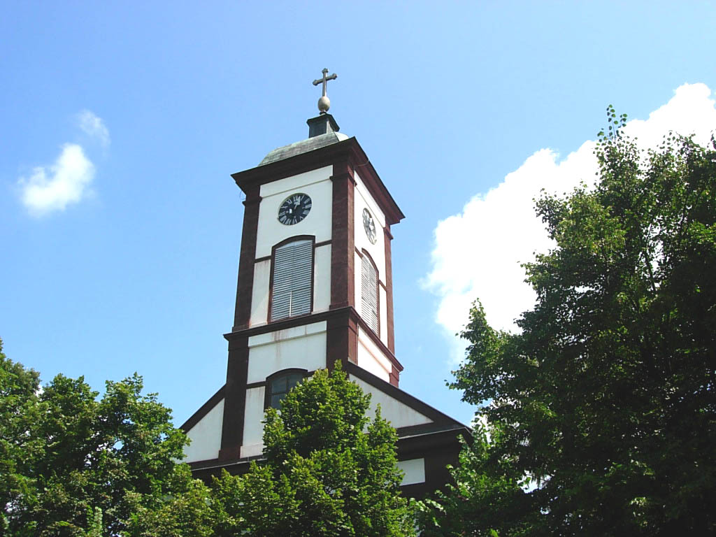 Saint George the Martyr Roman Catholic Church in Novi Kneževac, Vojvodina, Serbia.